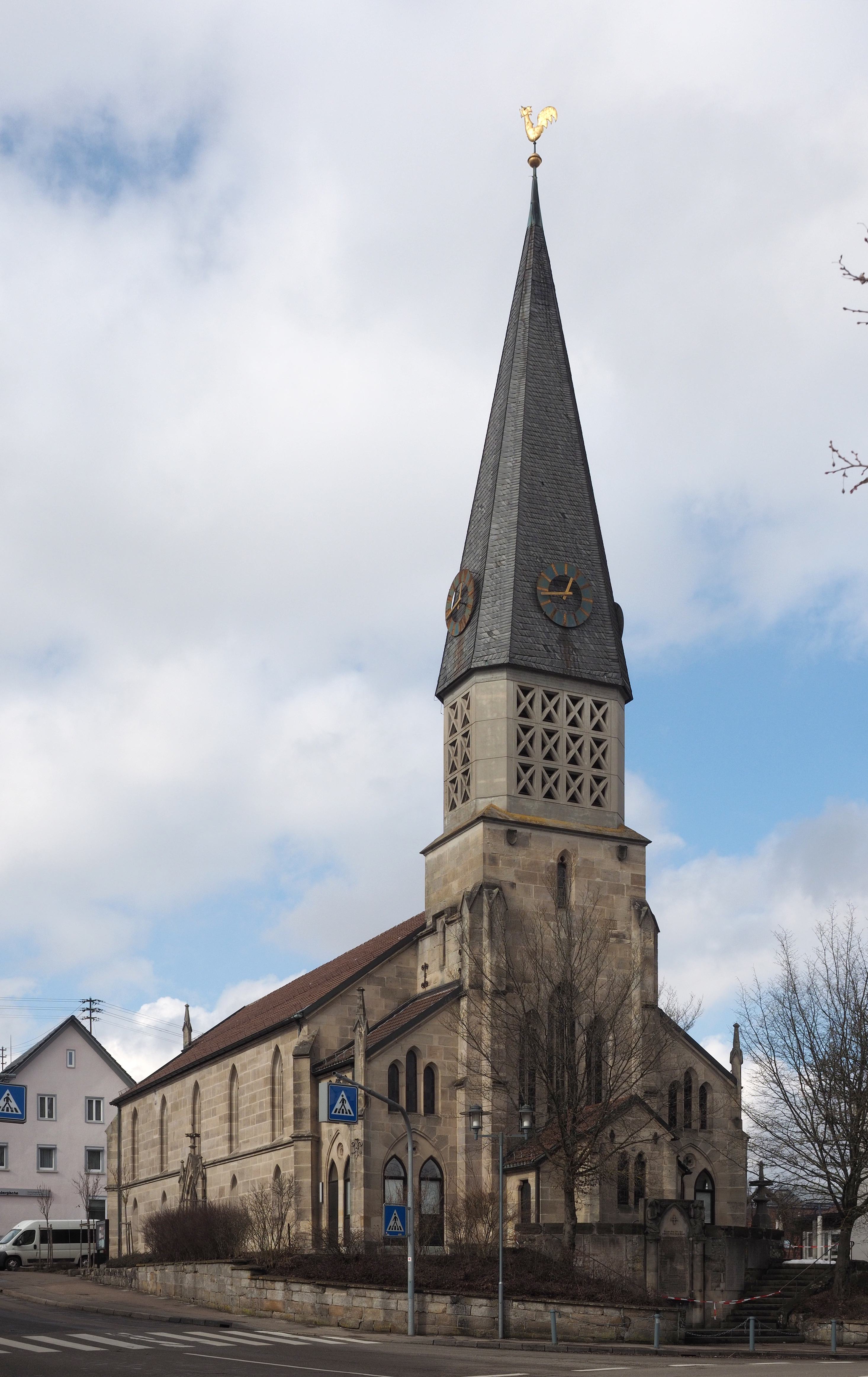 Protestant Church Gschwend, Germany